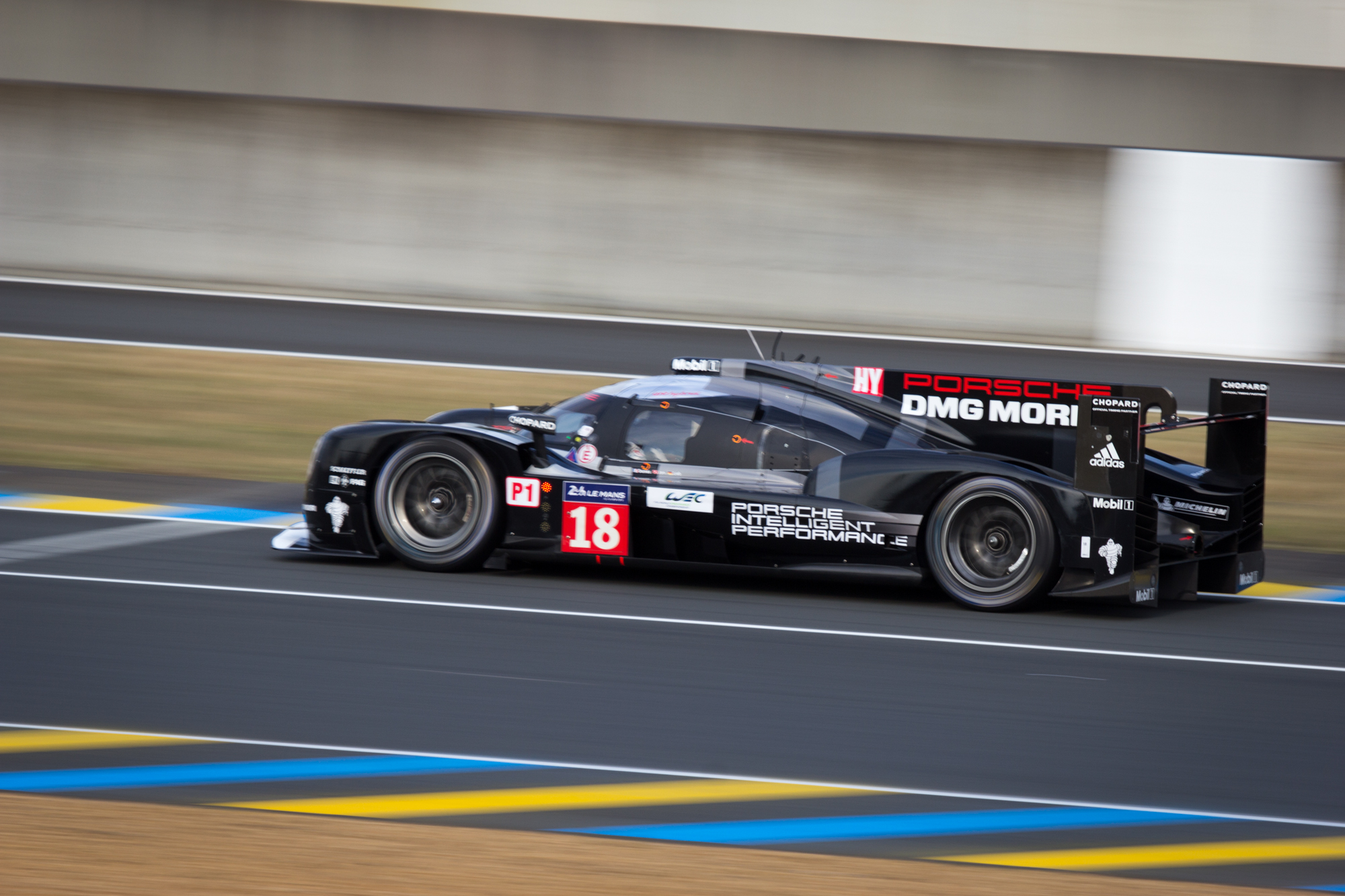 Drivers: Romain Dumas, Neel Jani, Marc Lieb